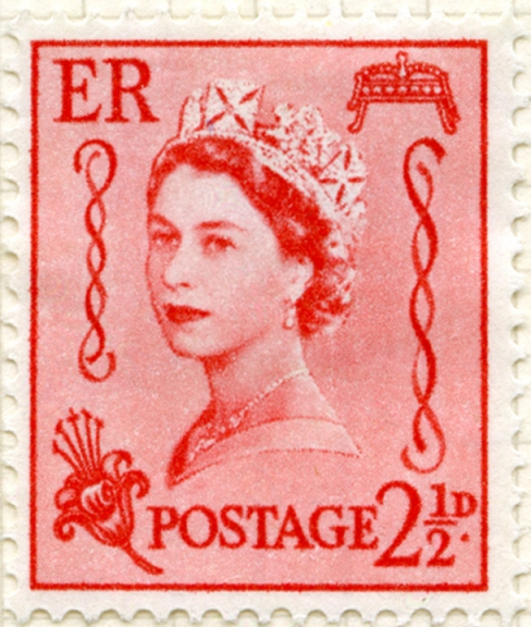 Regional stamps (now called Country definitives) 1958 Guernsey, 2 1/2 d.